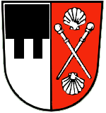 Coat of arms of the municipality of Deisenhausen